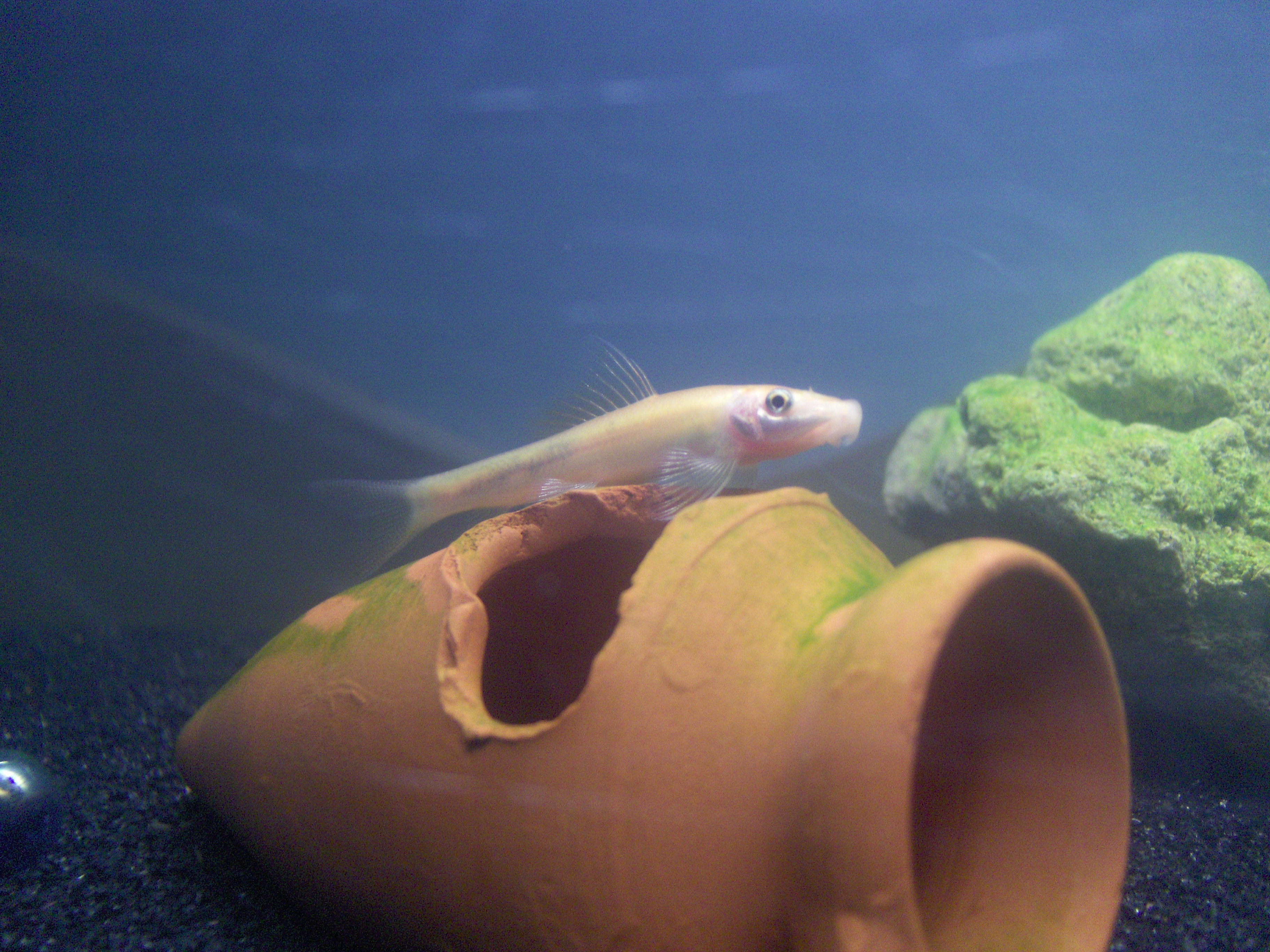 Leucistic form of Chinese algae eater, Gyrinocheilus aymonieri, about 6 cm long